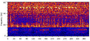 Spectrogram of 52 Hz "whale-like" signals, which were first reported by Watkins et al.(2000). On average these tones had a center frequency of 51.75 Hz and lasted 5-7 sec. These tones are usually produced in groups of 2-6 and were recorded in the NE Pacific.